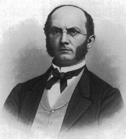 Isaac Ellmaker Hiester, US Representative from Pennsylvania